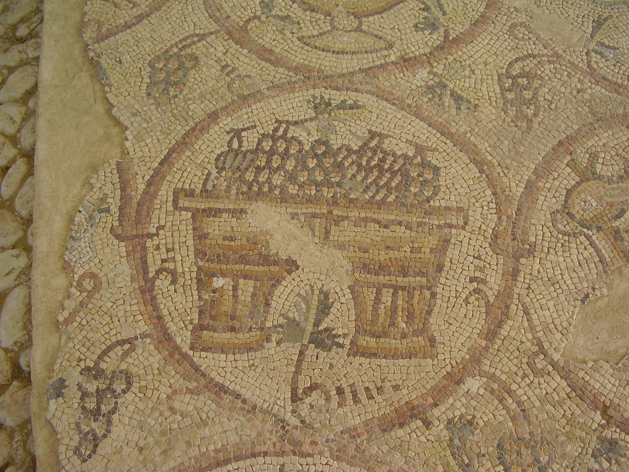 baskets with grapes in maon old synagogue mosaic in western negev.